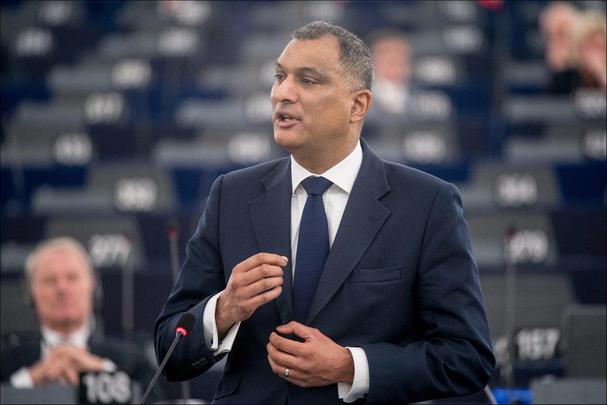 Following the UK parliament's rejection of the Brexit deal in a vote last evening, members of the European Parliament have underlined that the EU will remain united and that citizens’ rights are Europe's priority. Speaking in a debate in Parliament today, Commission Vice-President Frans Timmermans said commitments on the peace process and the border in Ireland or on citizens’ rights cannot be watered down. Parliament's lead member on Brexit @guyverhofstadt called on UK politicians to build a positive majority to break the Brexit deadlock. READ MORE ►► This photo is free to use under Creative Commons license CC-BY-4.0 and must be credited: "CC-BY-4.0: © European Union 20XY – Source: EP". No model release form if applicable. For bigger HR files please contact: webcom-flickr(AT)